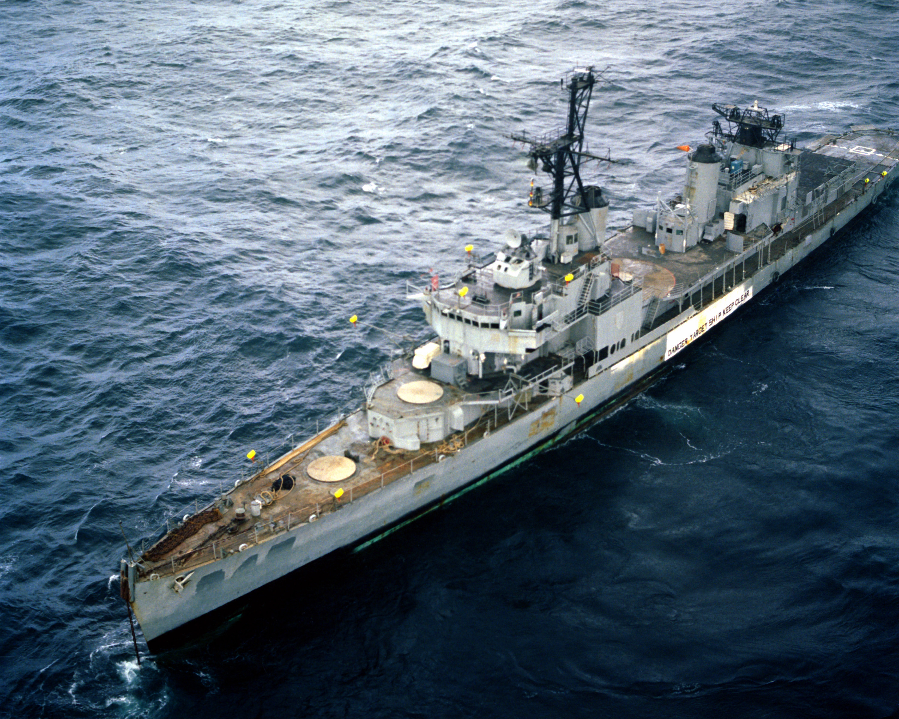 The former U.S. Navy Gearing-class destroyer USS Bausell (DD-845) as a target ship during damage assessment, near the Pacific Missile Test Center (PMTC), Point Mugu, California (USA), in 1982. She was finally sunk as a target on 17 July 1987.